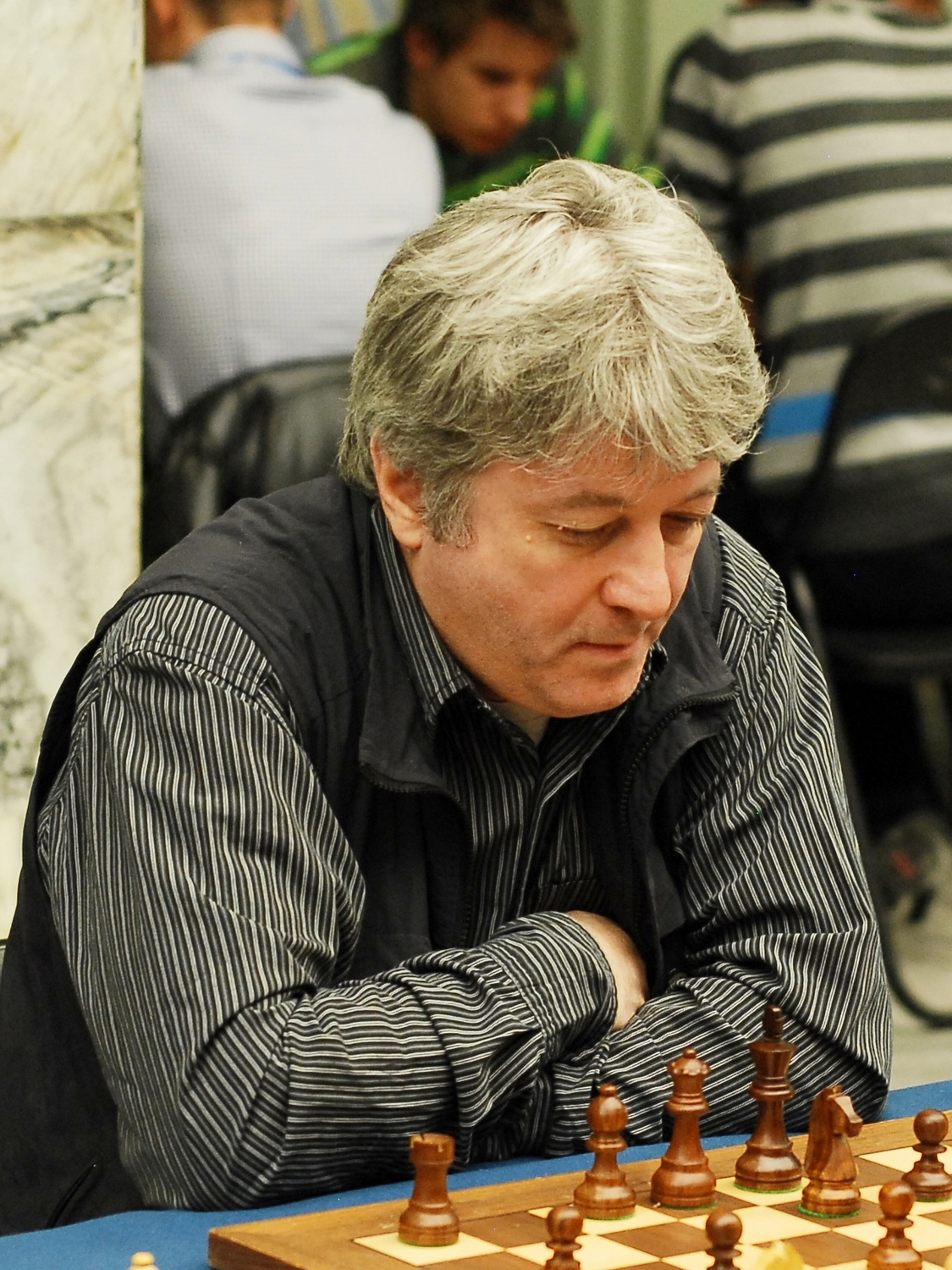 GM Yuri Yakovich, European Rapid Chess Championship, Warsaw 2012.